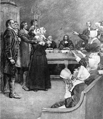 Two alleged witches being tried in Salem, Massachusetts as part of the infamous witchhunts.